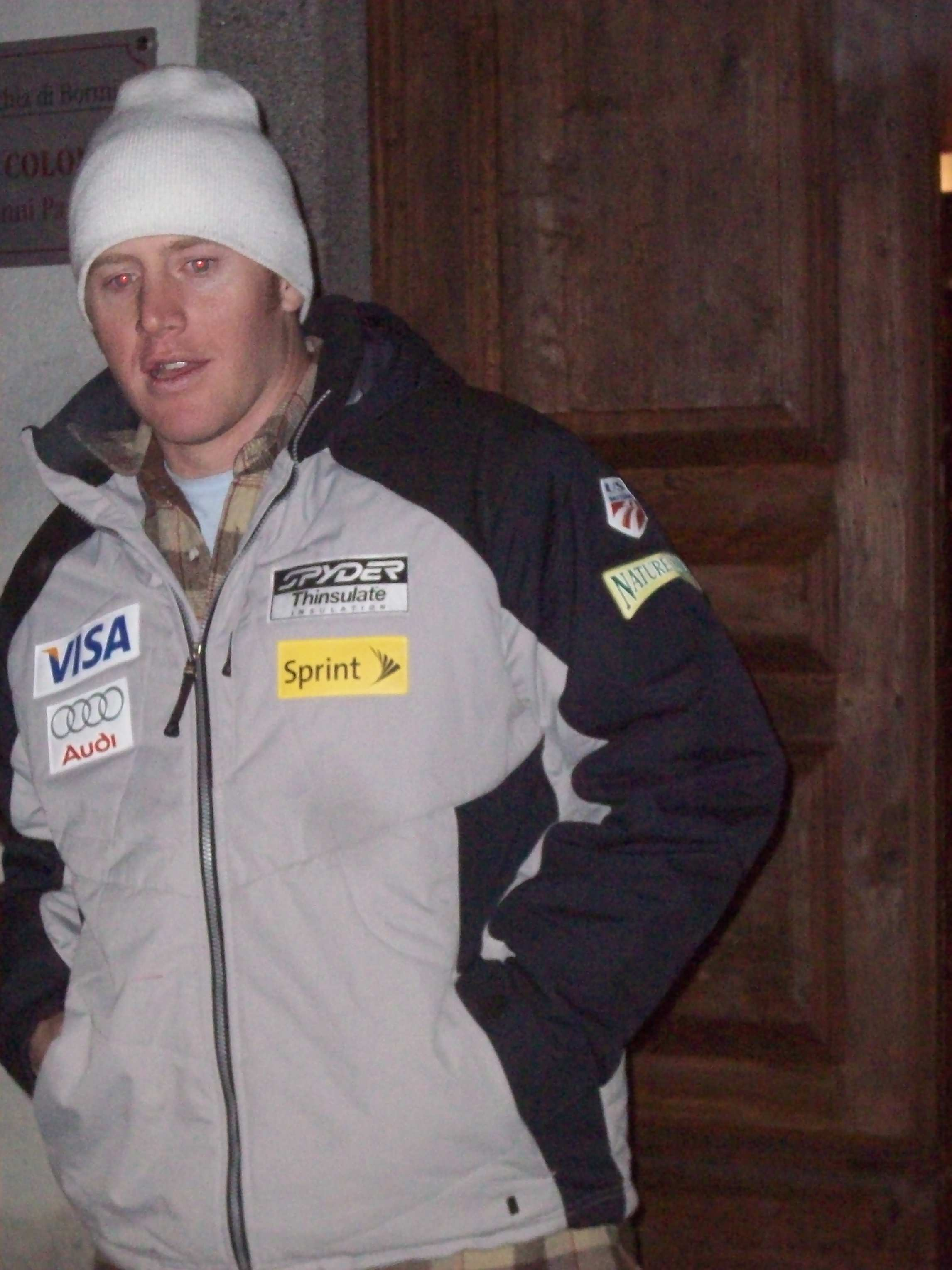 Marco Sullivan